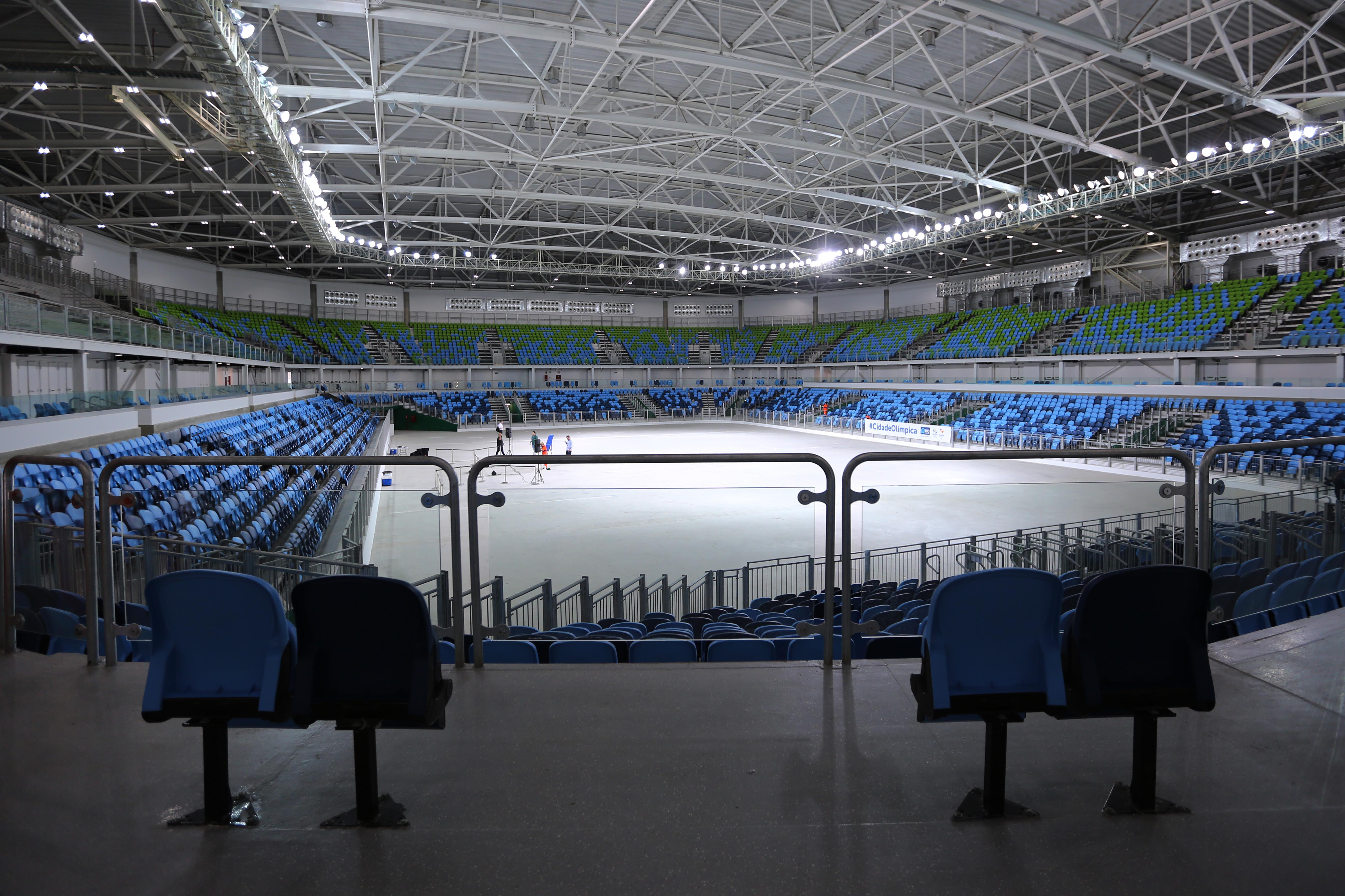 14 de Maio de 2016 - Inauguração Arena Carioca 2. Foto: Roberto Castro/ME